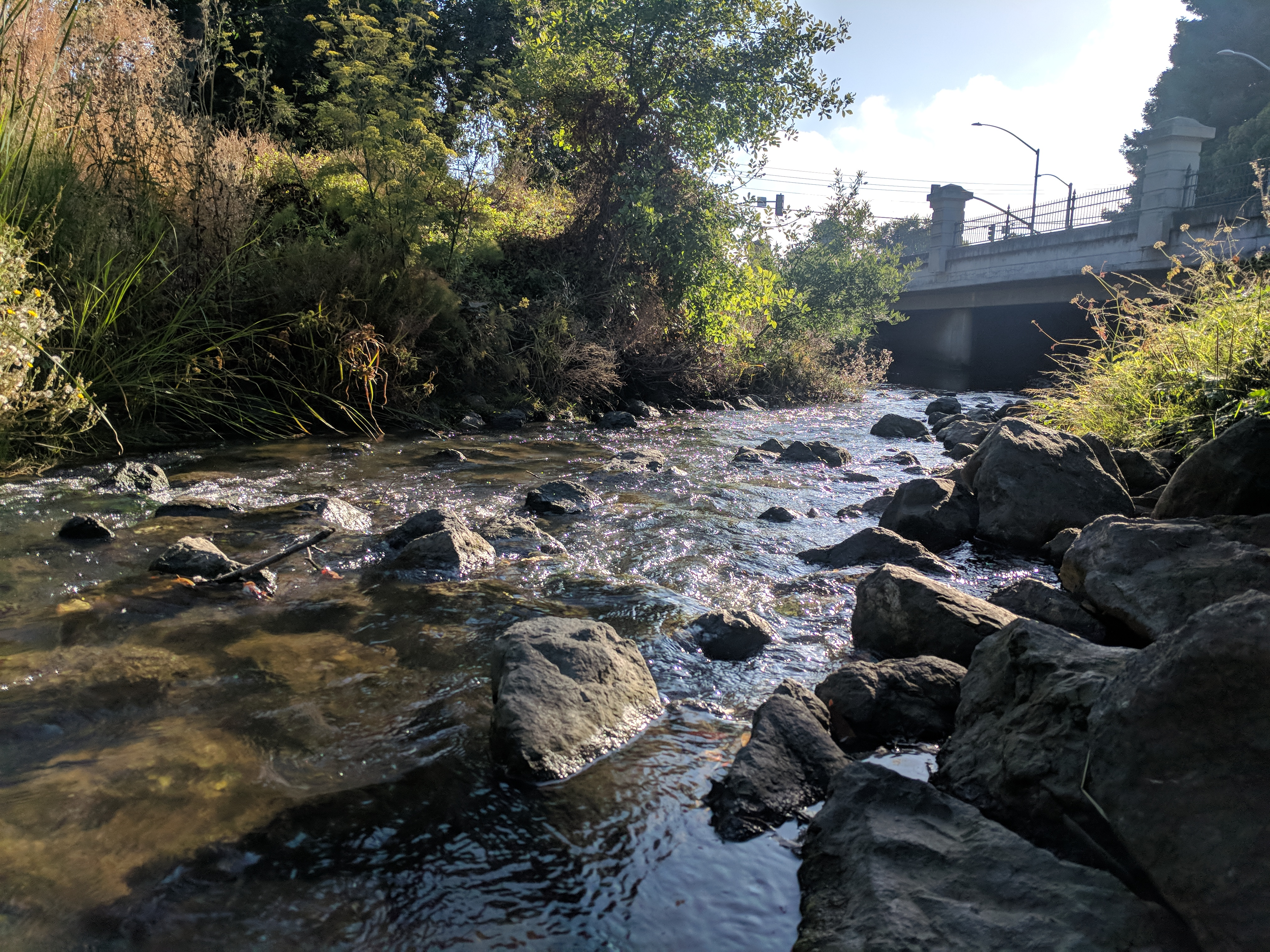 San Mateo Creek, just downstream of Gateway Park (Humboldt & Third bridge is visible in the background), west of US 101.